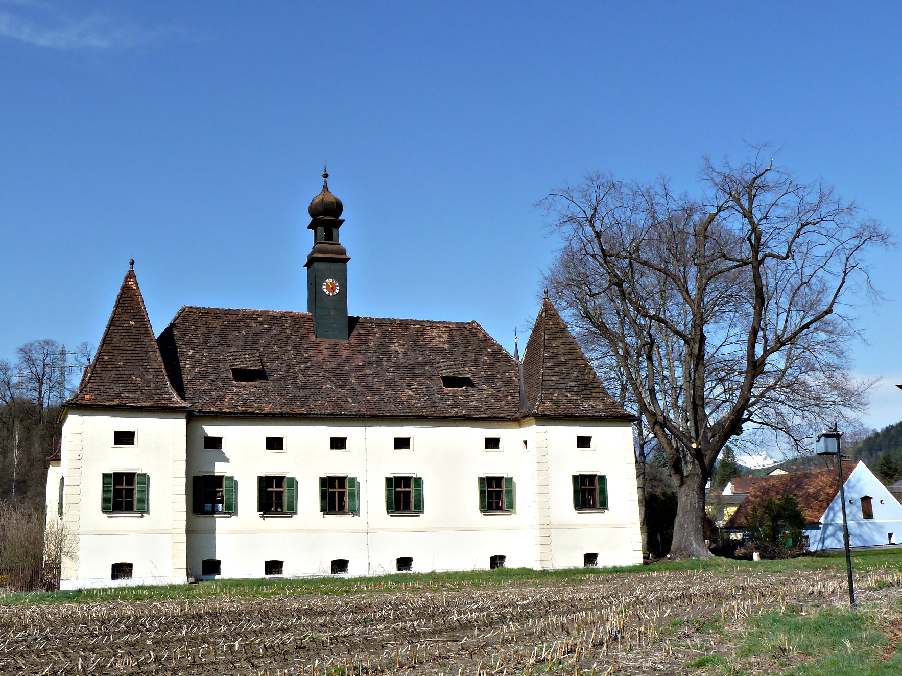 Schloss Friedhofen, St. Peter Freienstein This media shows the natural monument in Styria with the ID 845.